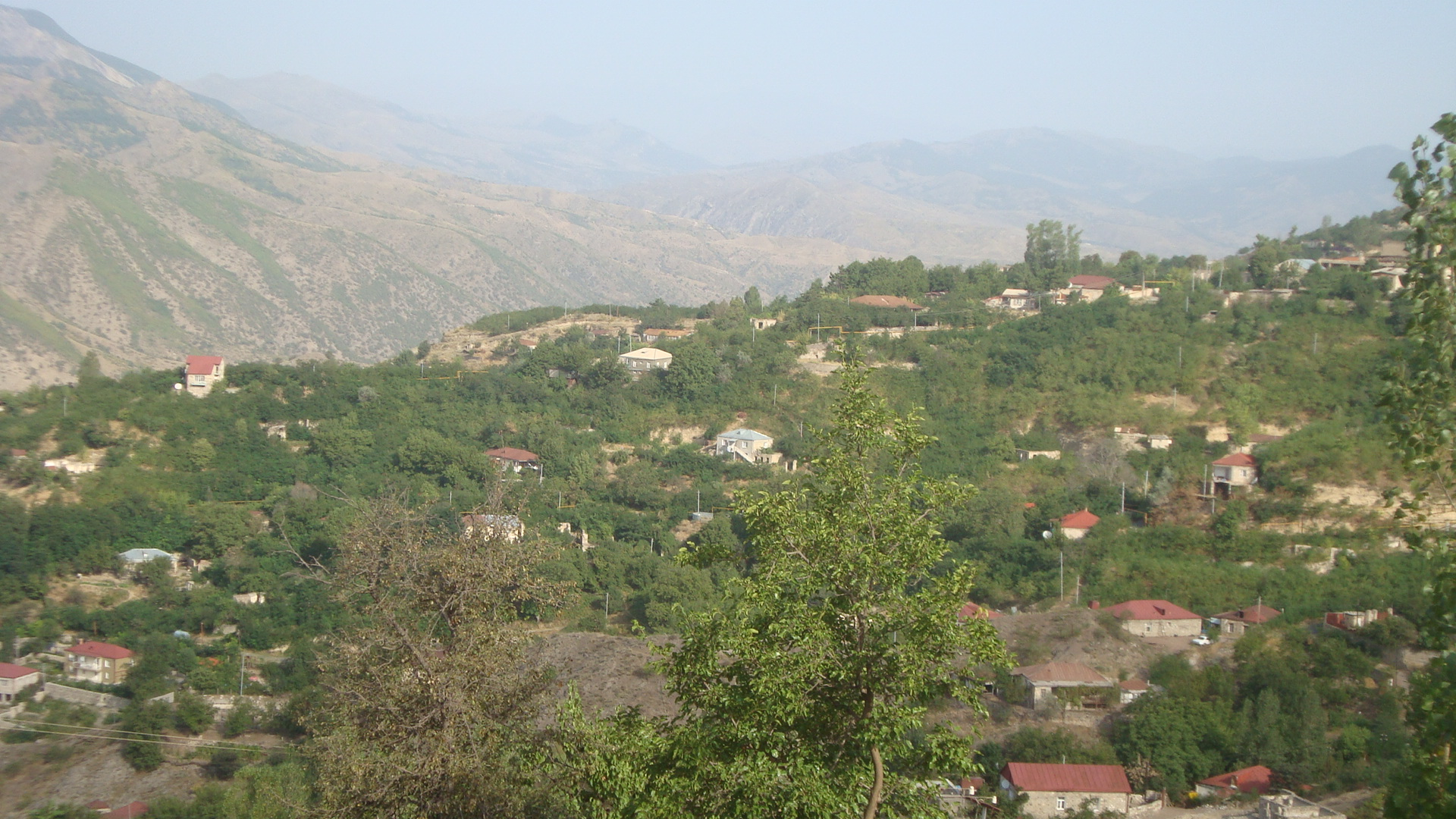 A view of the city. Lachin, Republic of Azerbaijan.